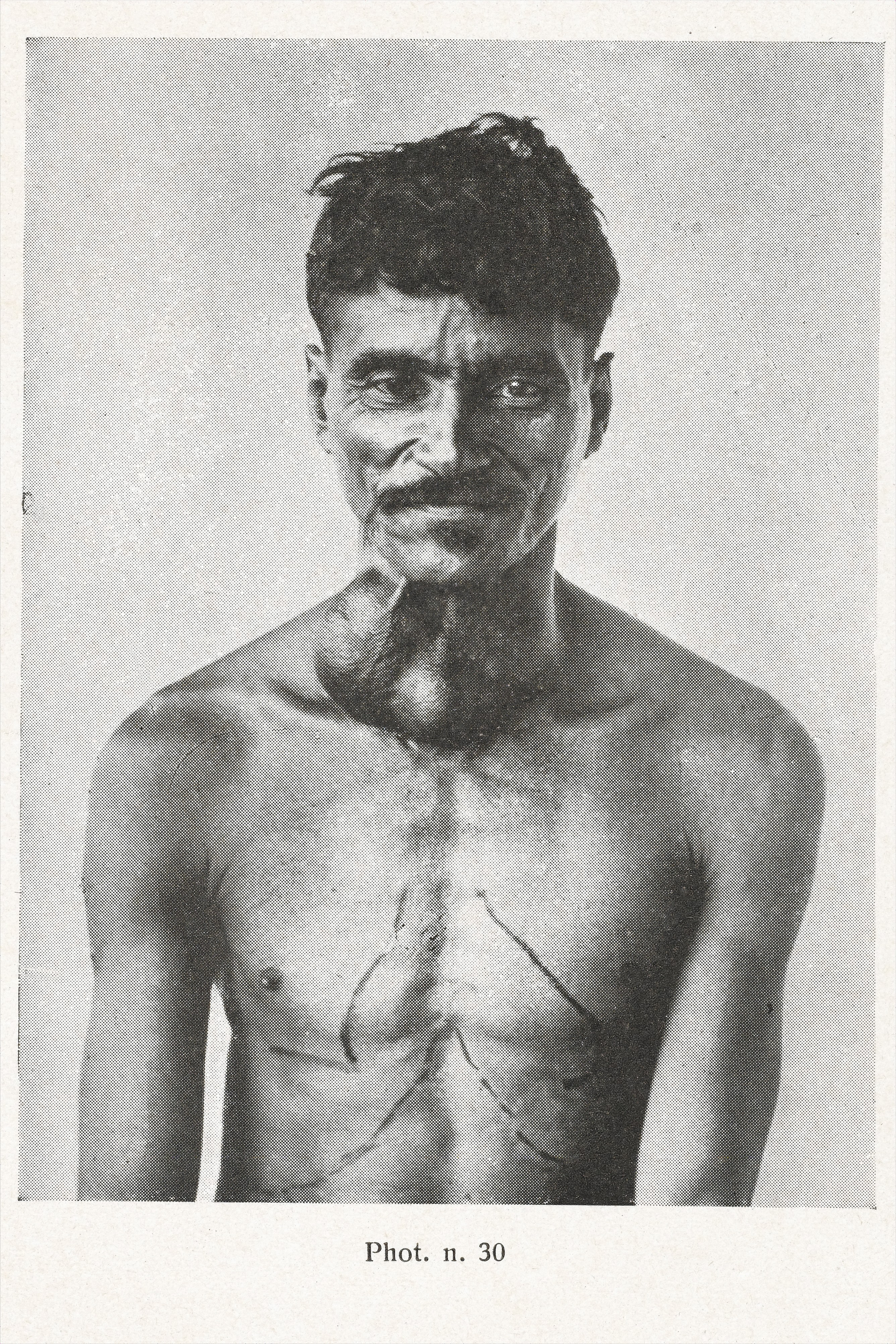 Photograph of woman with Chagas disease. General Collections Keywords: Trypanosomiasis; Chagas Disease; José Guilherme Lacorte